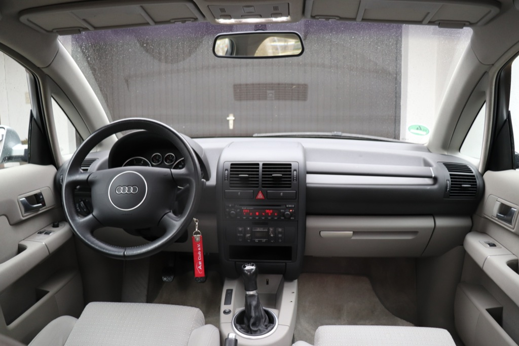 Audi A2 Dashboard black/light grey